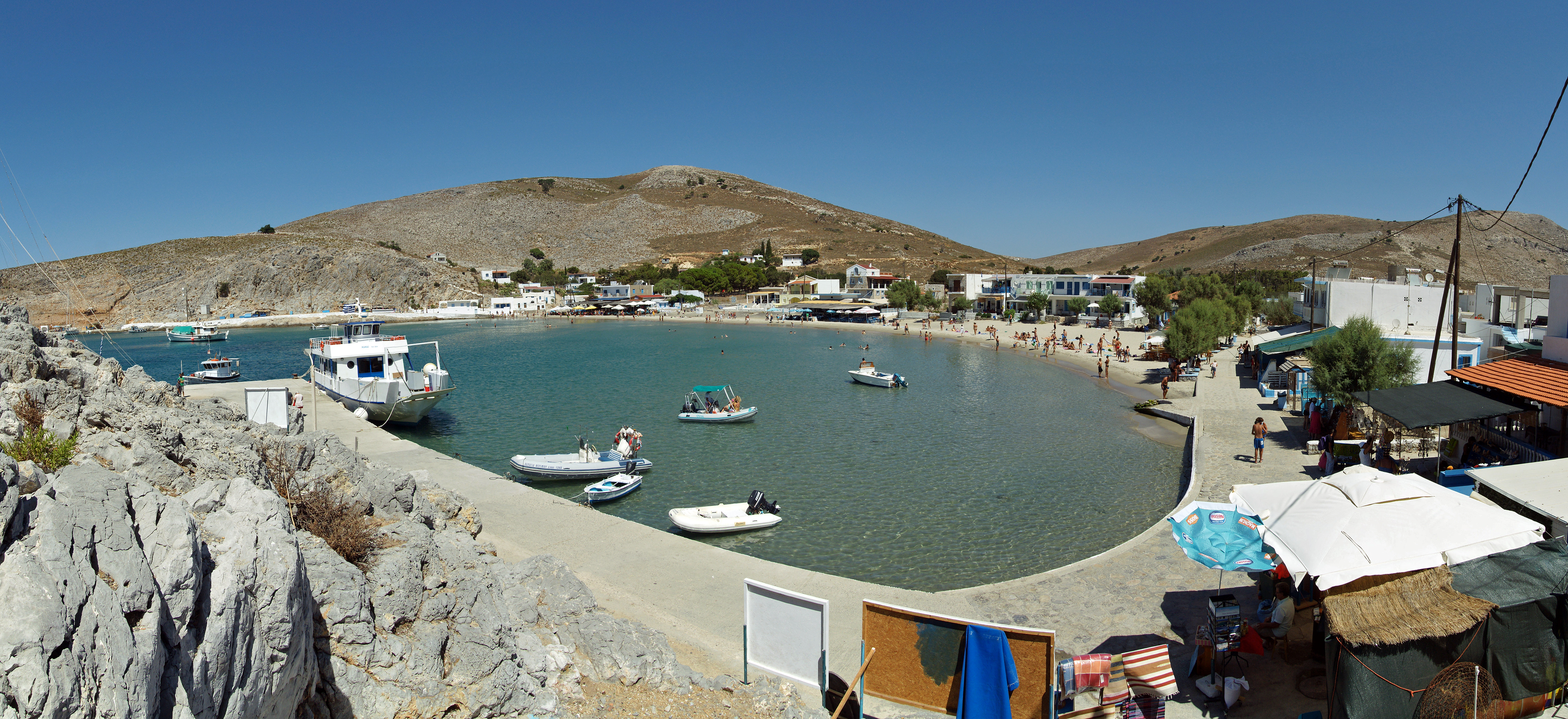 Panorama from Pserimos, Greece.